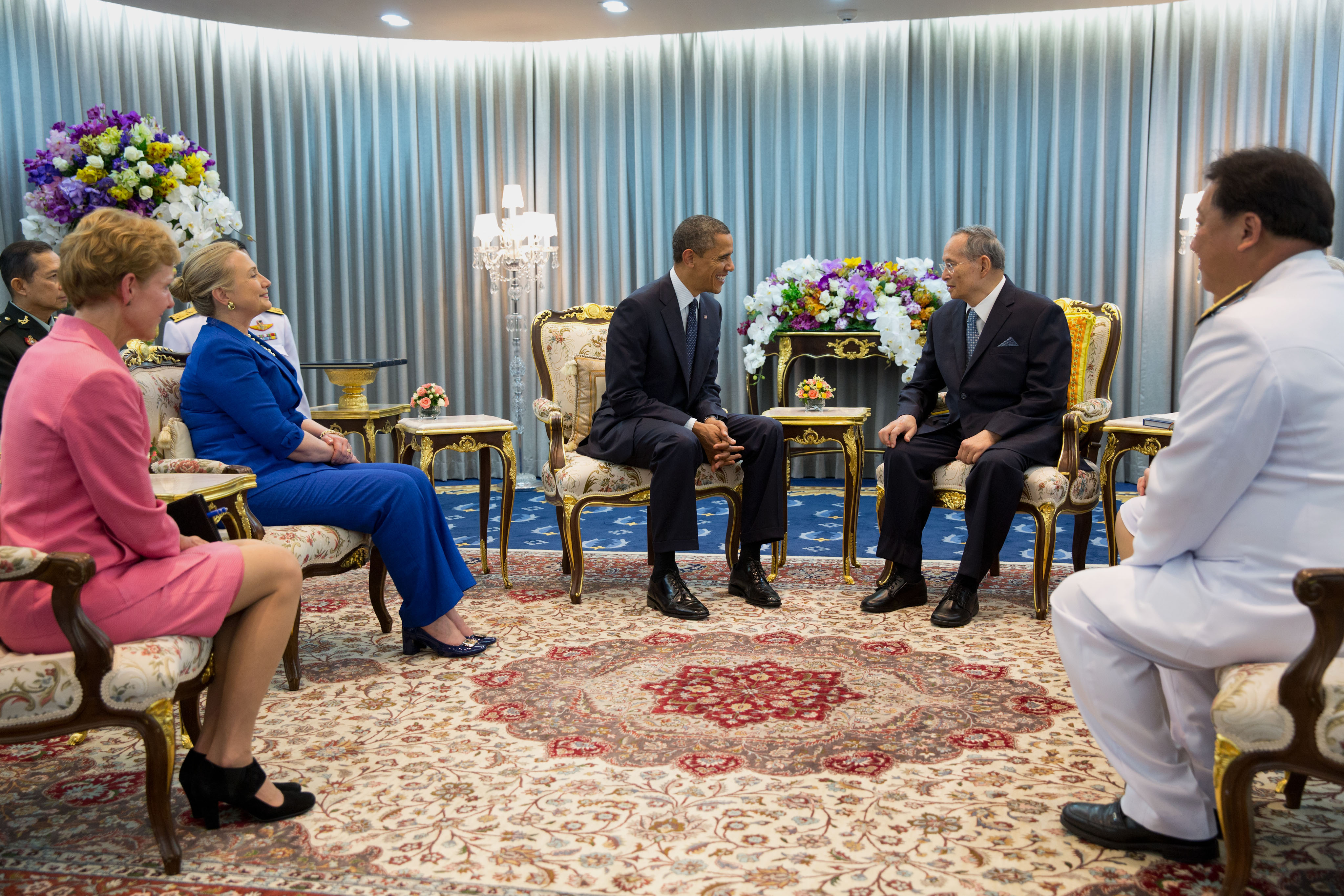 President Barack Obama, with Secretary of State Hillary Rodham Clinton and Ambassador Kristie Kenney, left, meet with King Bhumibol Adulyadej of the Kingdom of Thailand, at Siriraj Hospital in Bangkok, Thailand, Nov. 18, 2012.